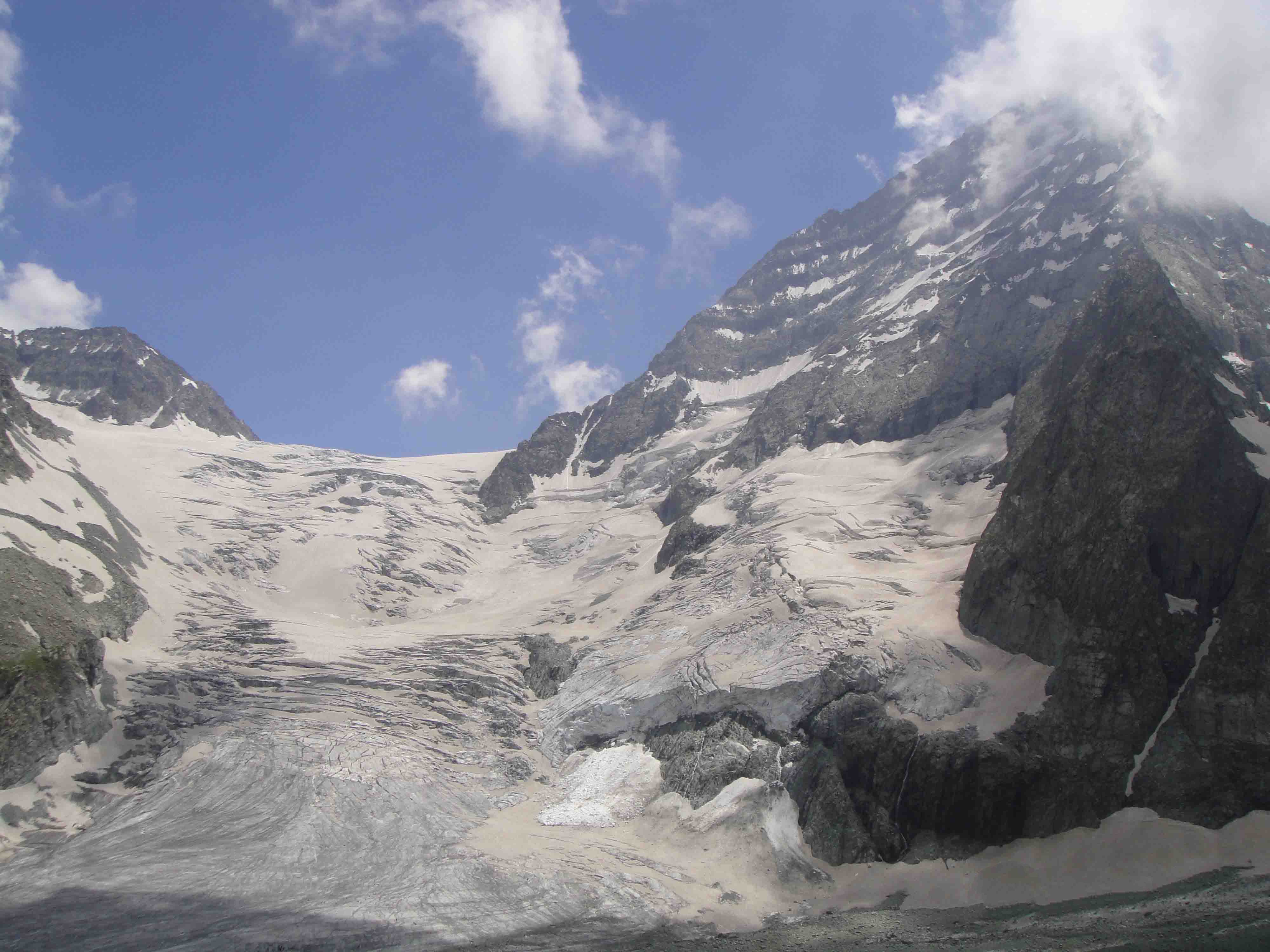 Kolahoi Glacier and Mt. Kolahoi (5425m) North view - the highest mountain in Kashmir valley; Jammu and Kashmir, India